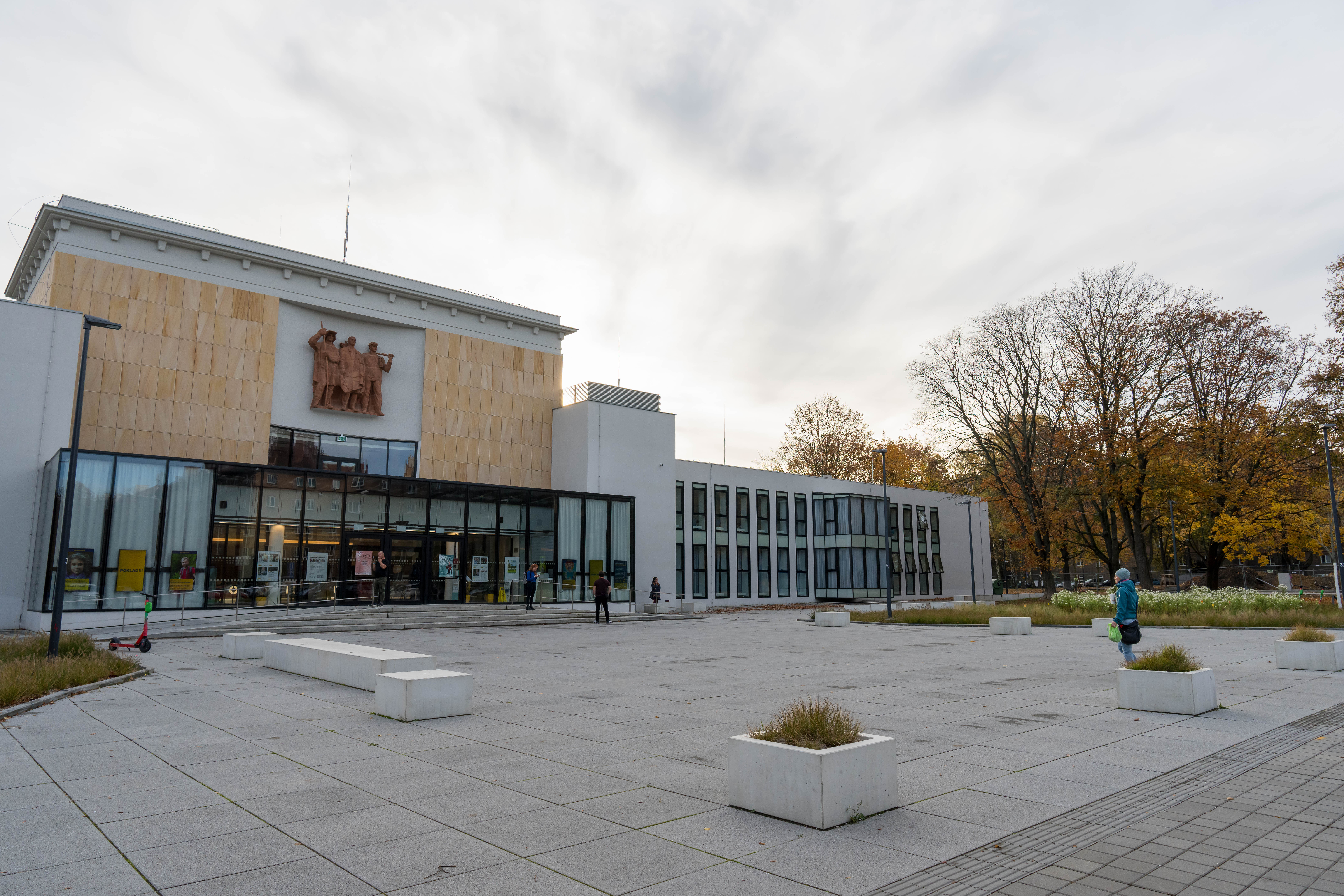 A house of culture at Matěje Kopeckého street in Ostrava-Poruba, CZ Project: Fotíme Česko